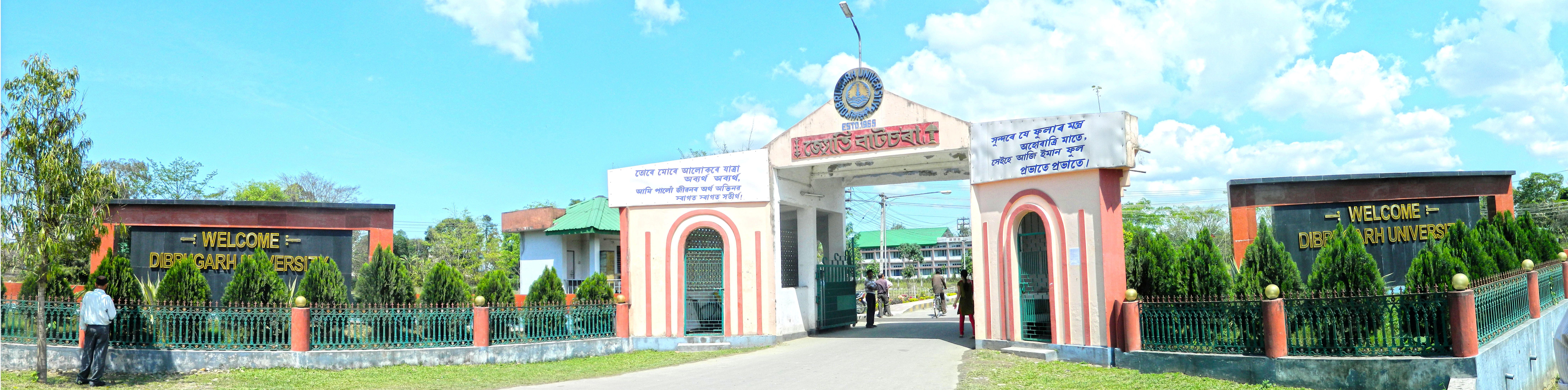 Dibugarh University